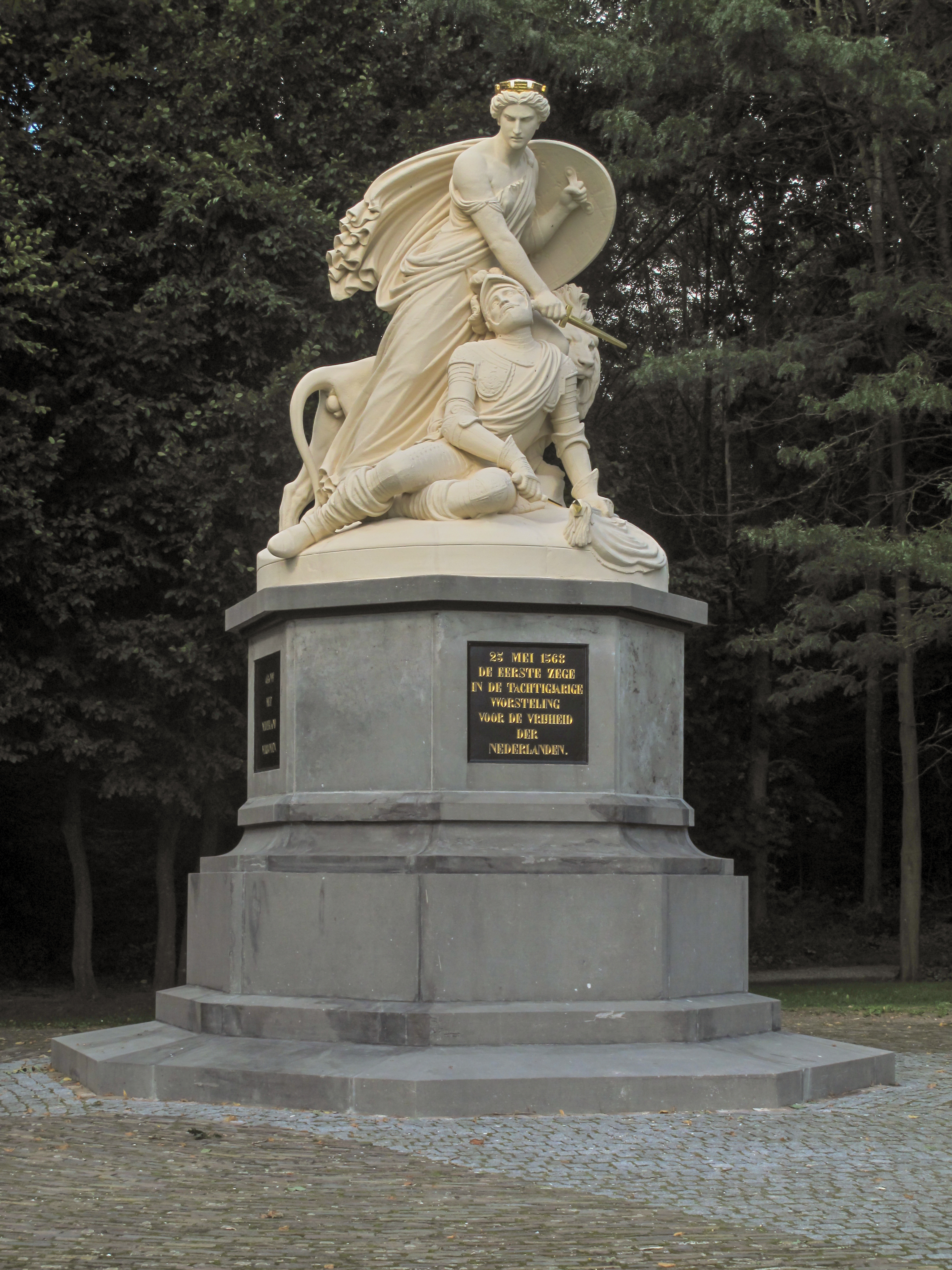 Heiligerlee, war monument Battle of Heiligerlee 1568